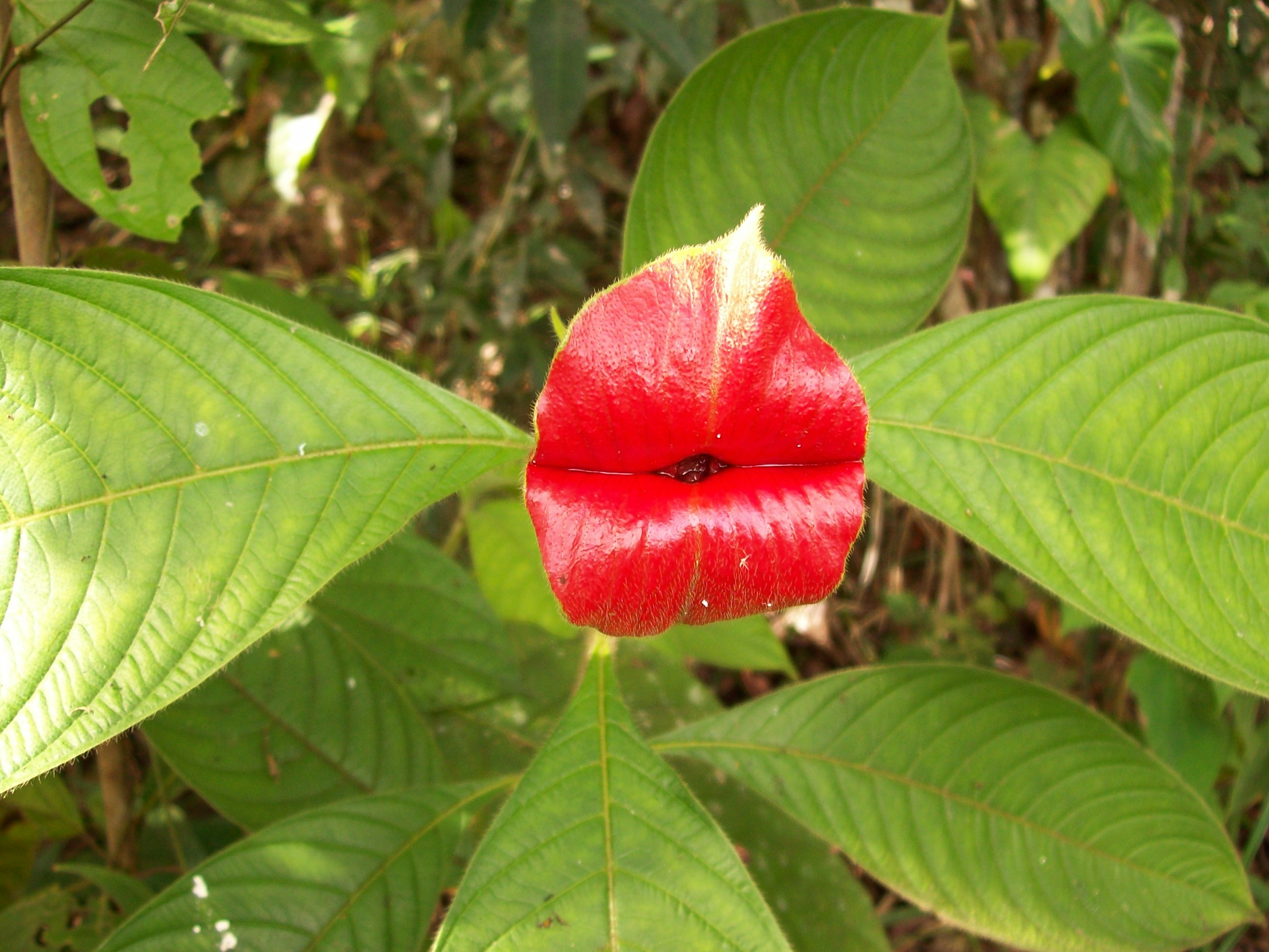 KISS FLOWER